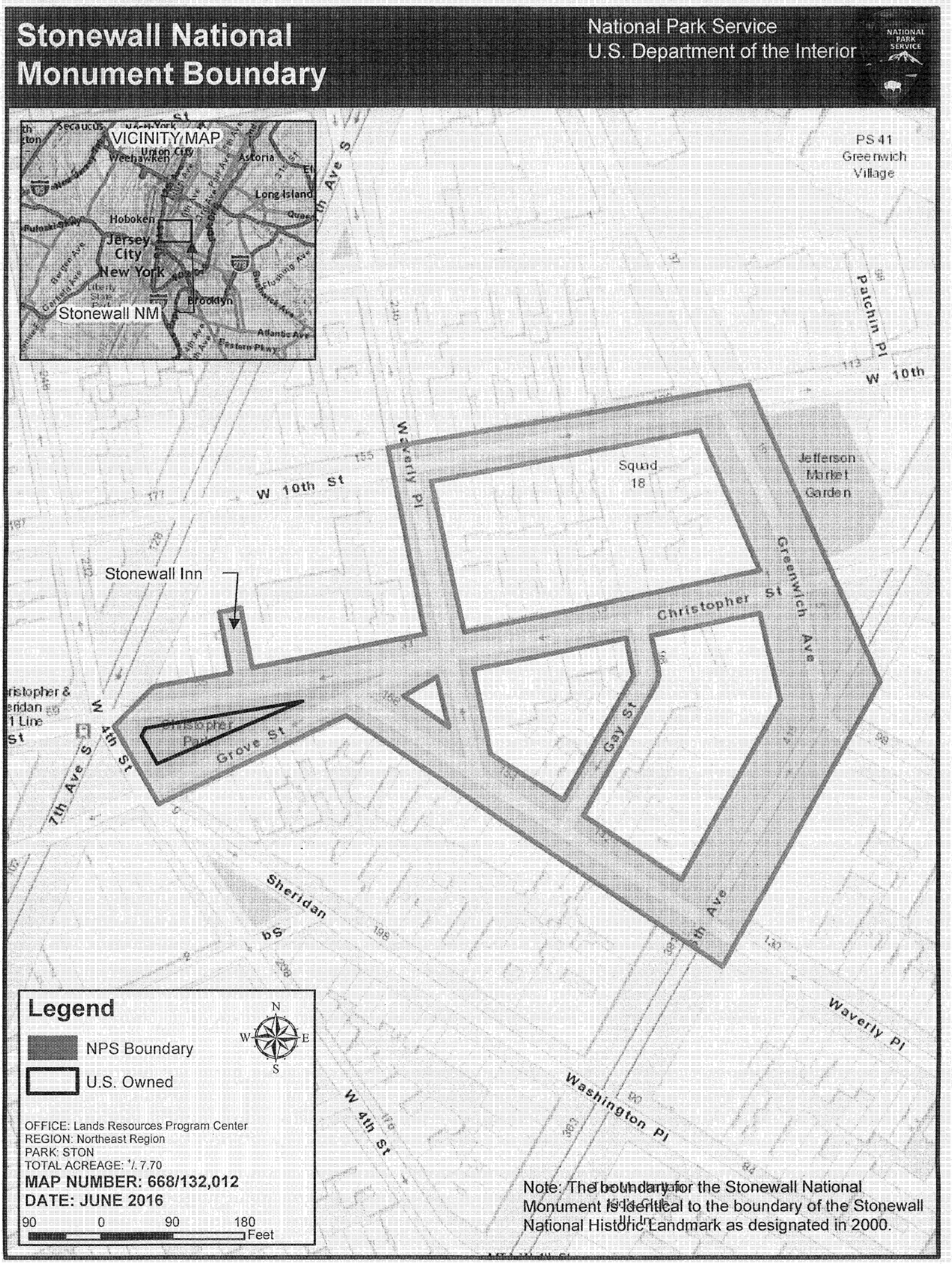 Stonewall National Monument Boundary Map